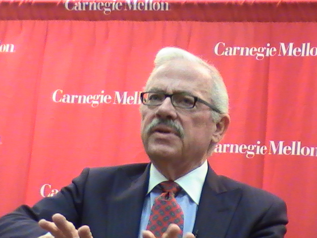 Bob Barr, Libertarian candidate for US President, speaks at Carnegie Mellon University in October 2008.